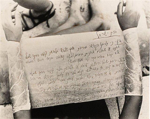 Photograph